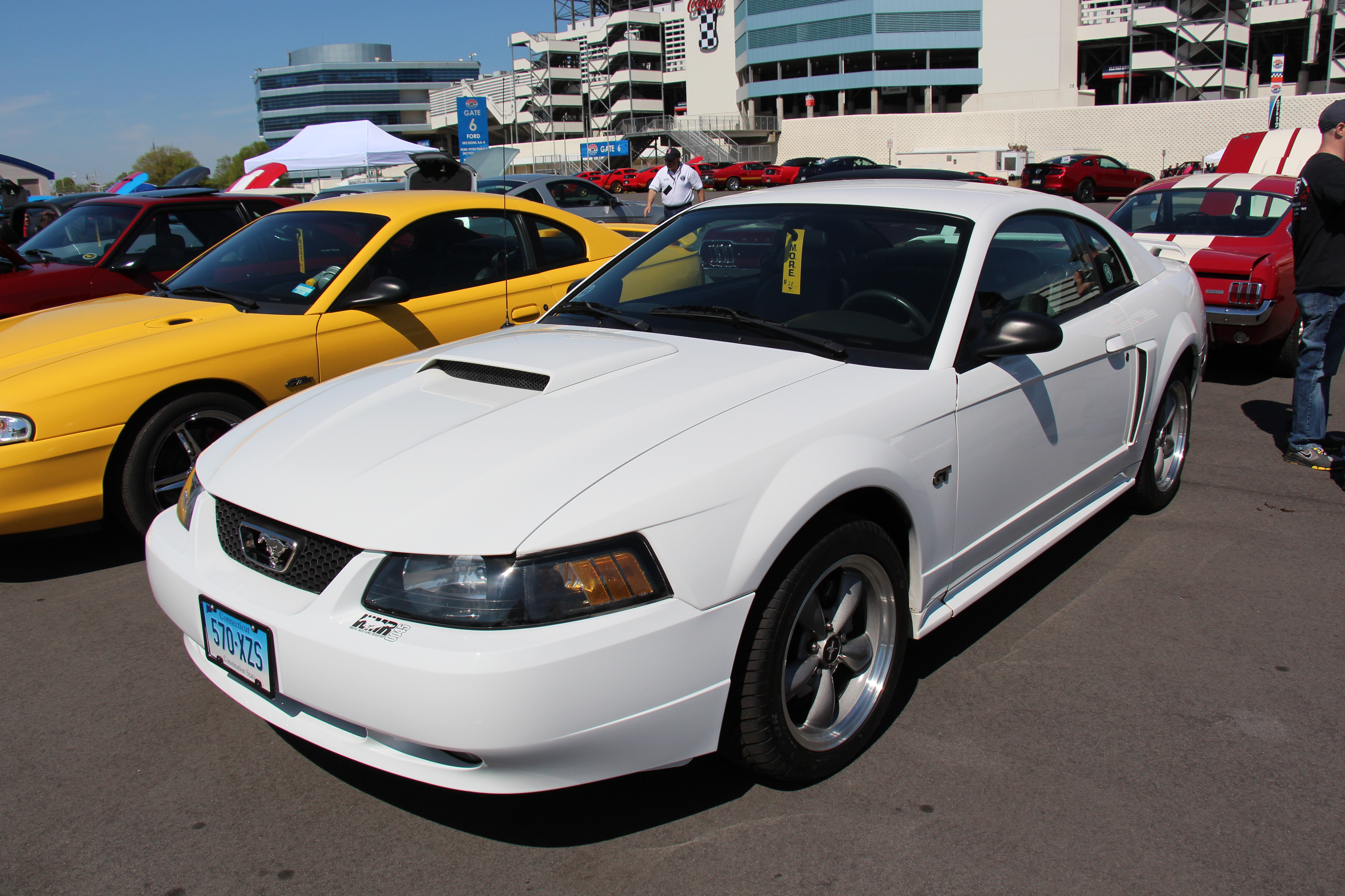 Crystal White. An all new 4th generation Mustang, the SN-95, was introduced in 1994, the notchback and hatchback were gone, replaced by a swoopier style coupe, a convertible was also available. The 1999 facelift saw a tougher look with sharper contours. The base model got the 3.8 V6 and the GT, the 260hp modular 4.6. Also available was the high performance SVT Cobra, 240hp 5.0 V8. Photographed at the 50th Anniversary of the Mustang celebrations at the Charlotte Motor Speedway, April 2014